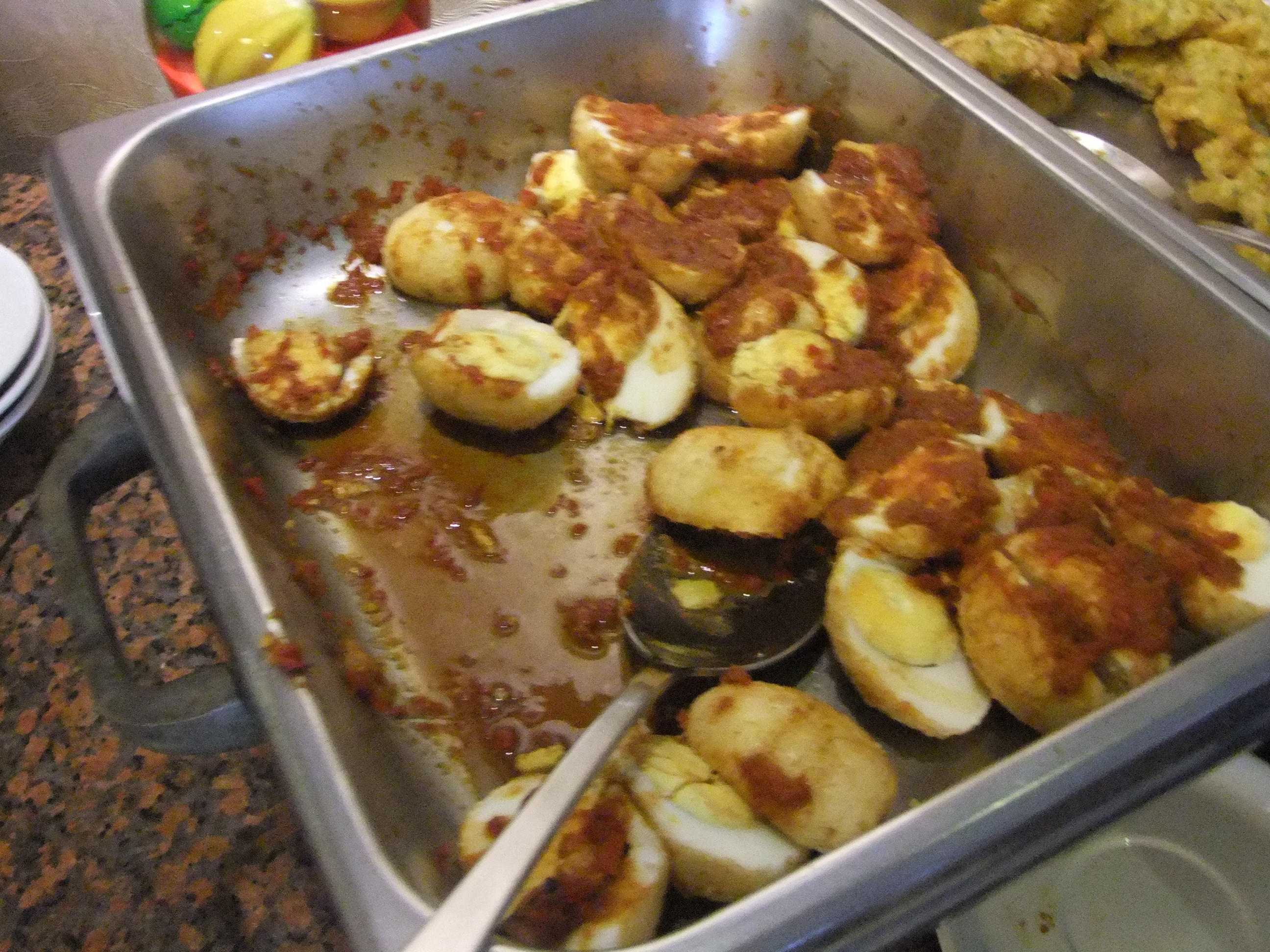 Telur bumbu Bali